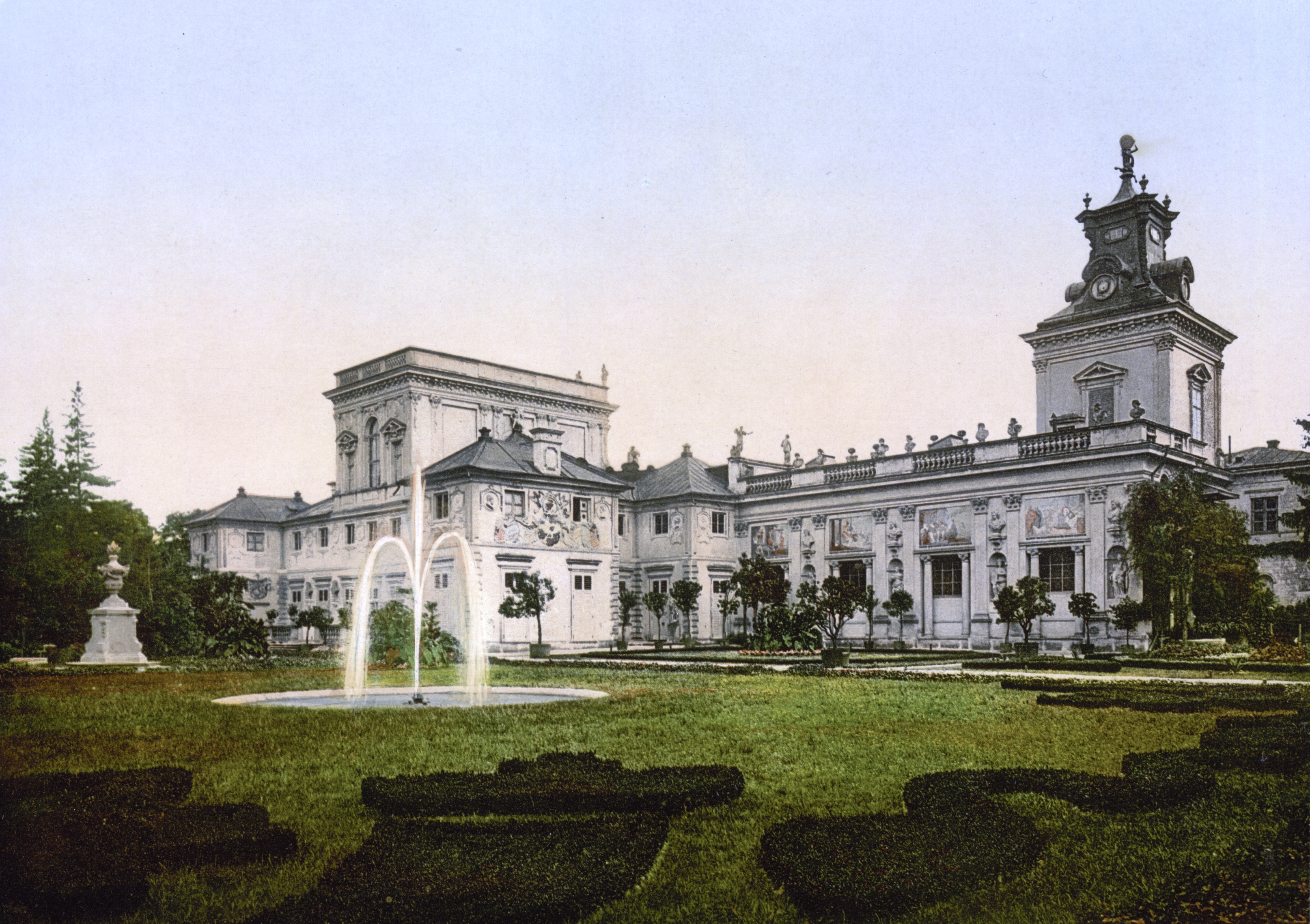 Photochrome picture of Wilanów Palace in Warsaw.